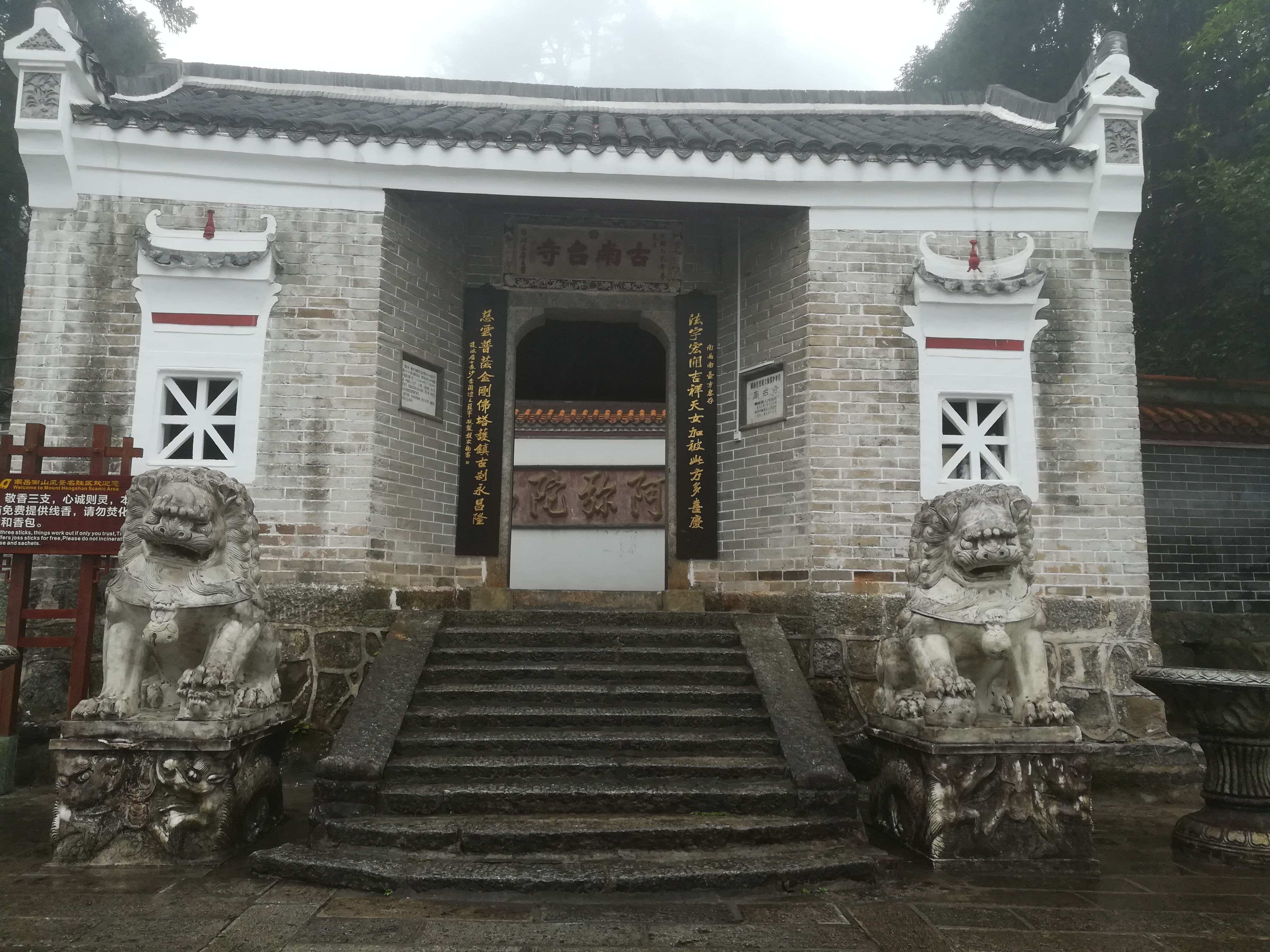 The Shanmen Hall at Nantai Temple.